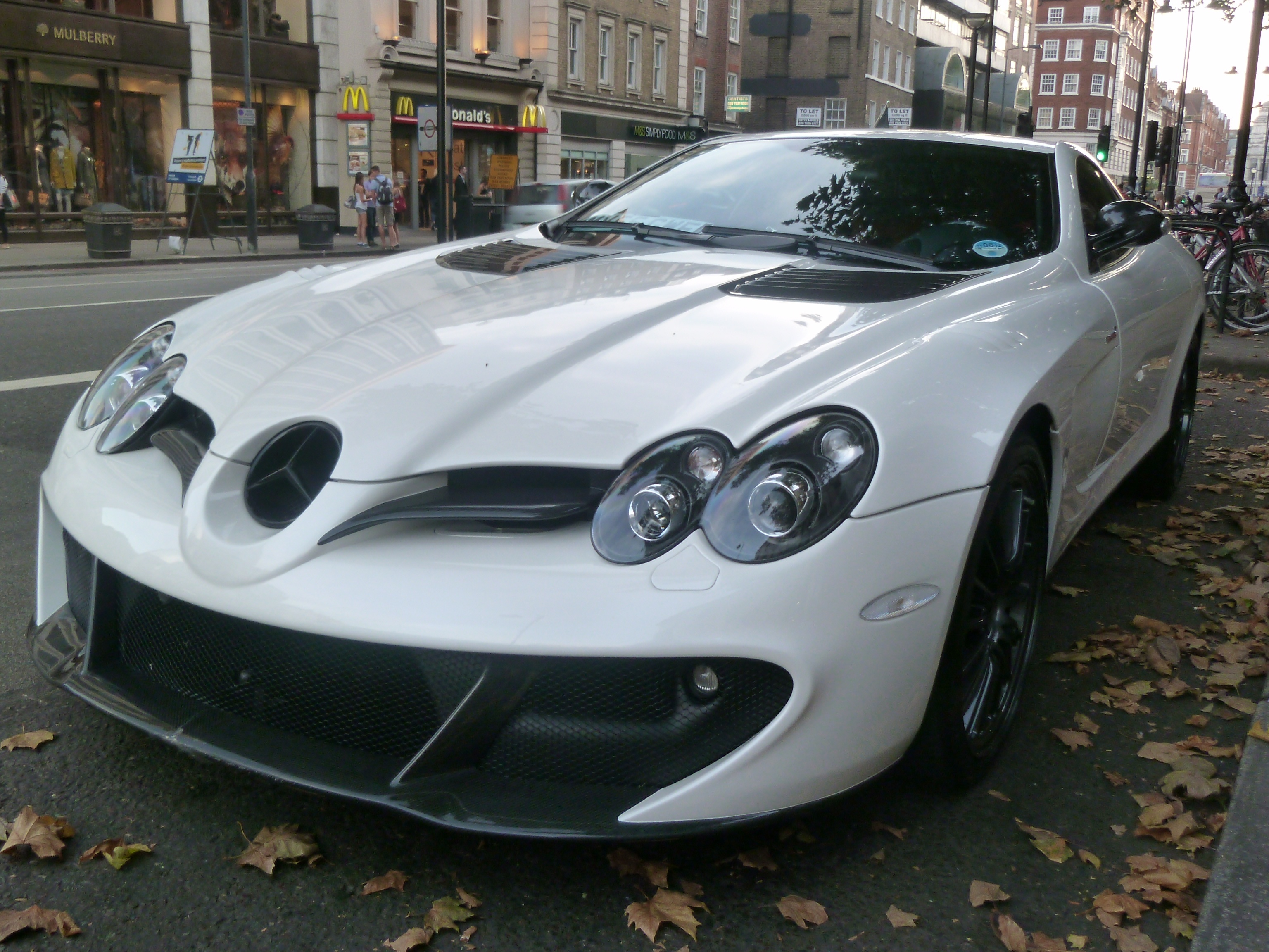 Slr Mclaren Edition